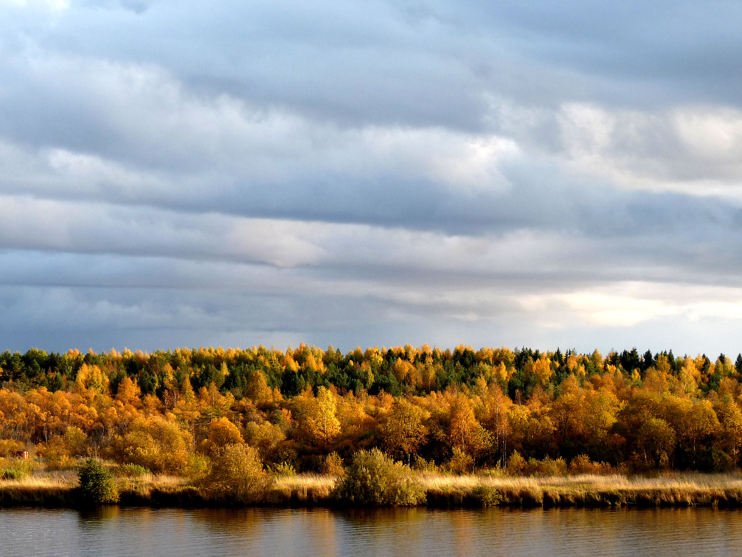 Sheksna River.